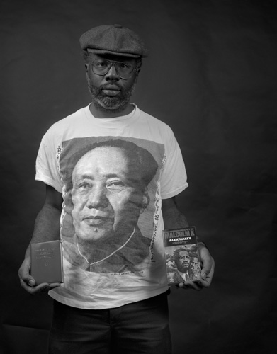 Carl Dix GI resister during the Vietnam War, one of the Fort Lewis Six arrested in June 1970 for refusing orders to Vietnam.